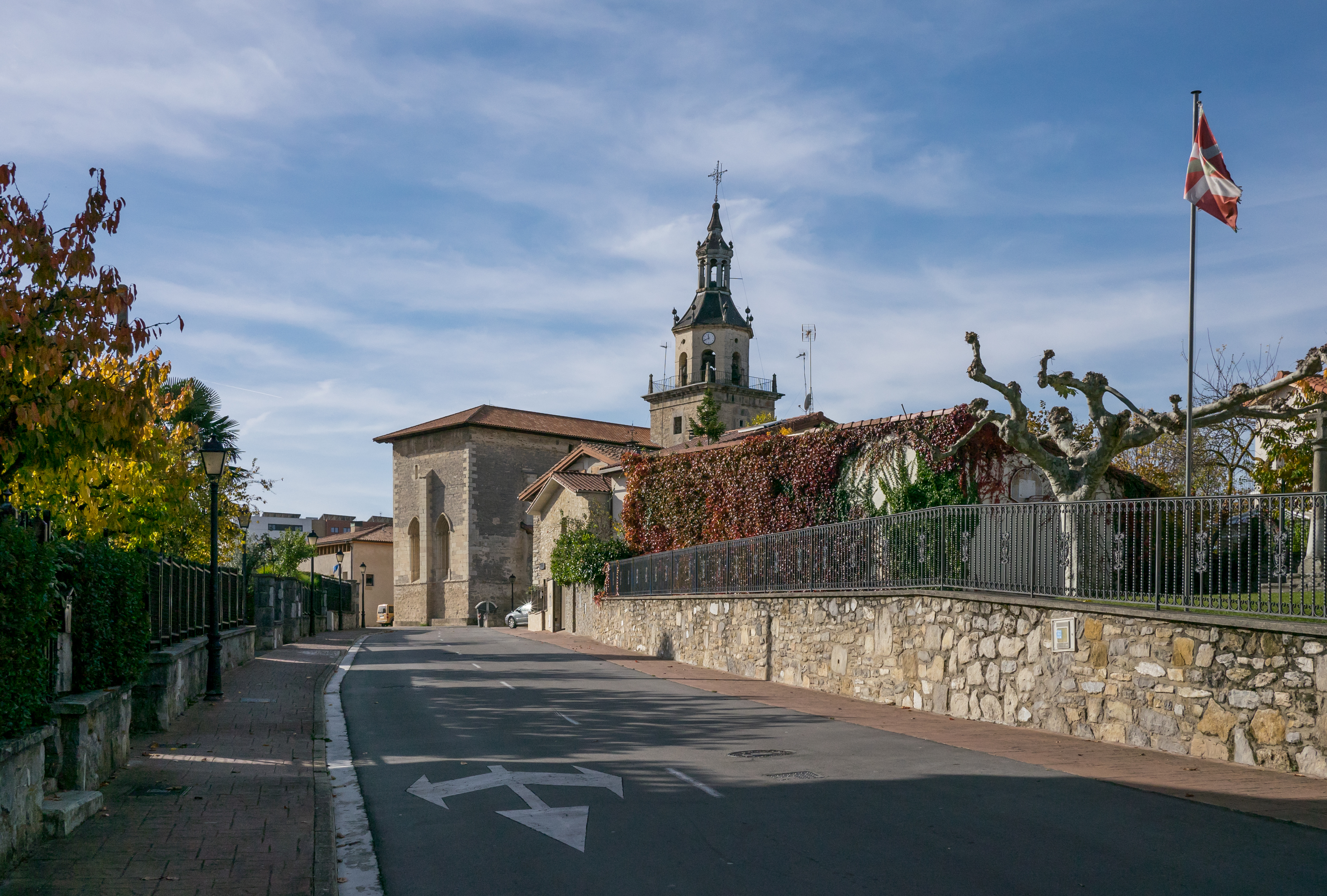 Street in the Alí quarter of Vitoria-Gasteiz. Basque Country, Spain